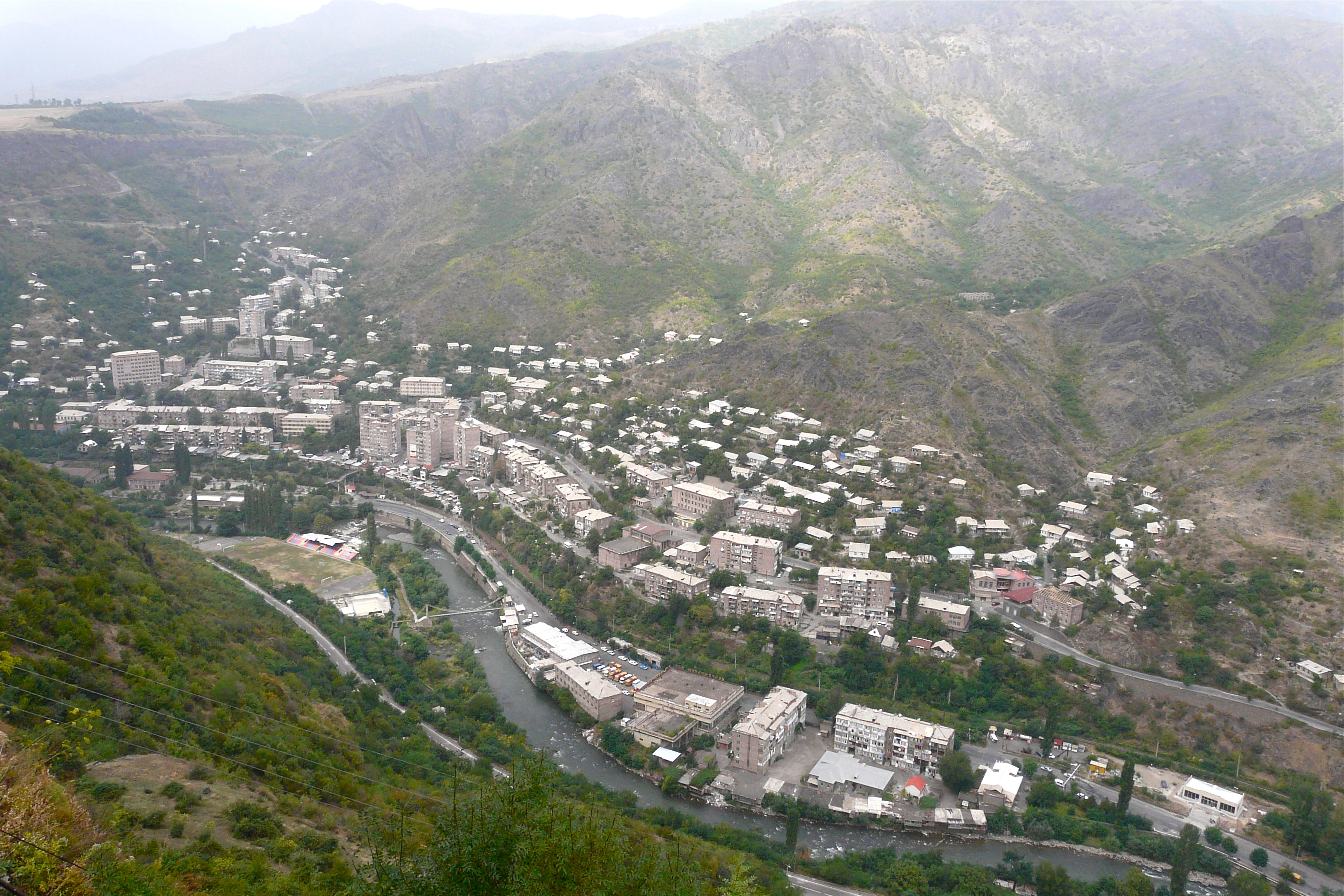 General view of the Alaverdi town